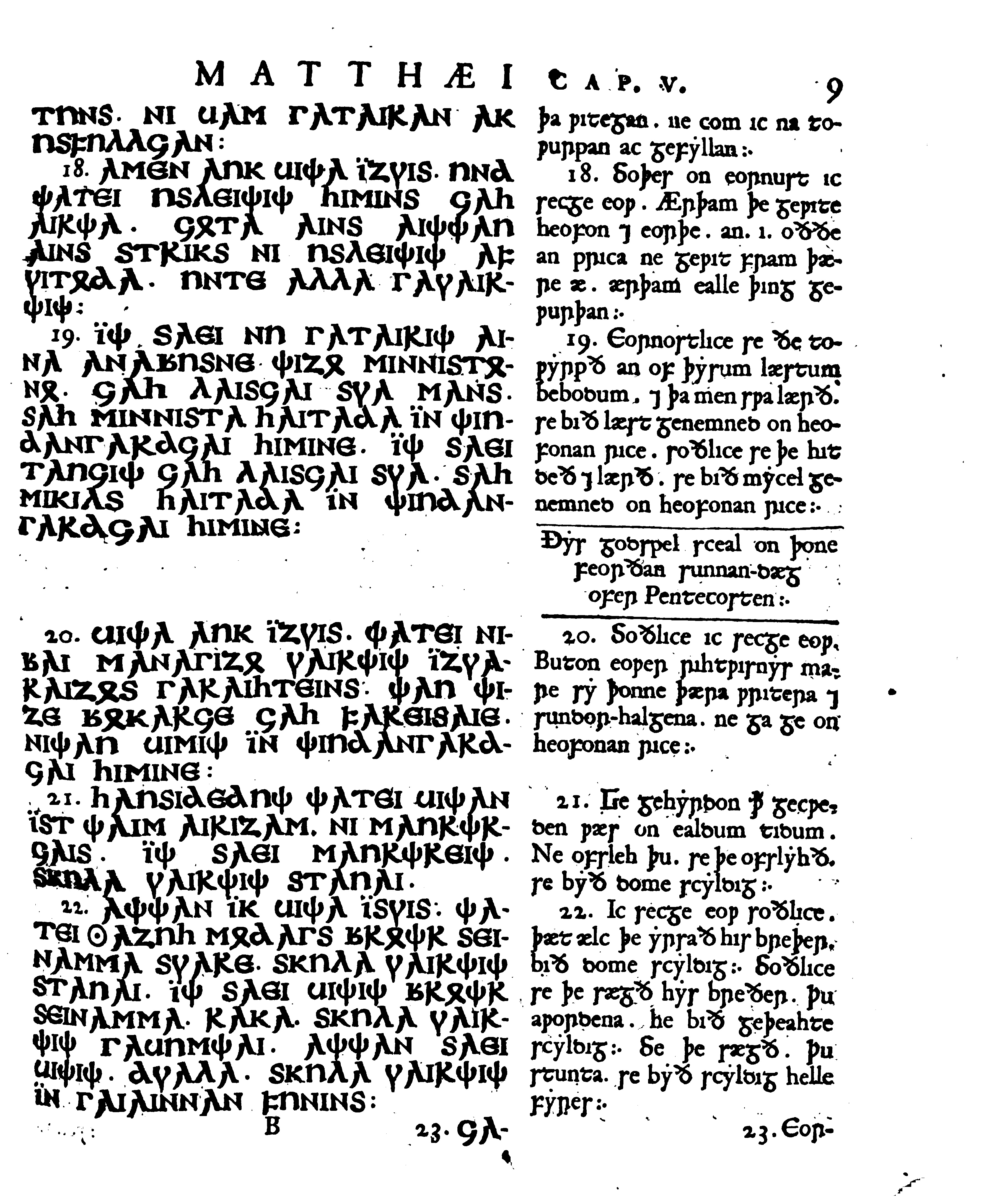 "Quatuor D.N. Iesu Christi Evangeliorum Versiones perantiquae duae, Gothica scil. & Anglo-Saxonica", ed. François Junius, Dordrecht 1665, p. 9 Matthew 5:18–22 in Gothic and Old English.